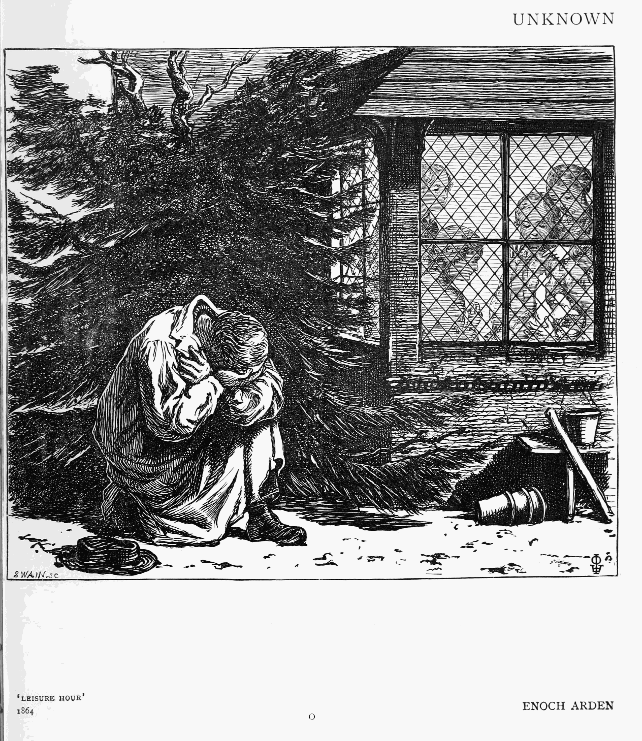 See the book's list of illustrations . Files in this book's category retain page numbers and page order.